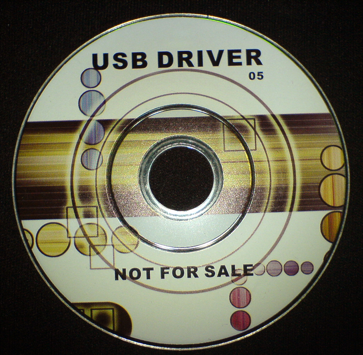 Mini CD used for delivering USB drivers for a webcam.